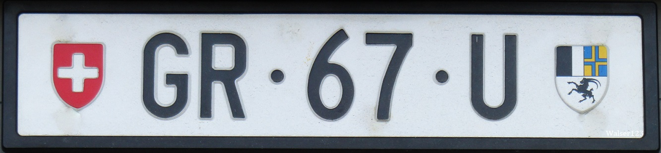 Swiss dealer plate, Graubünden